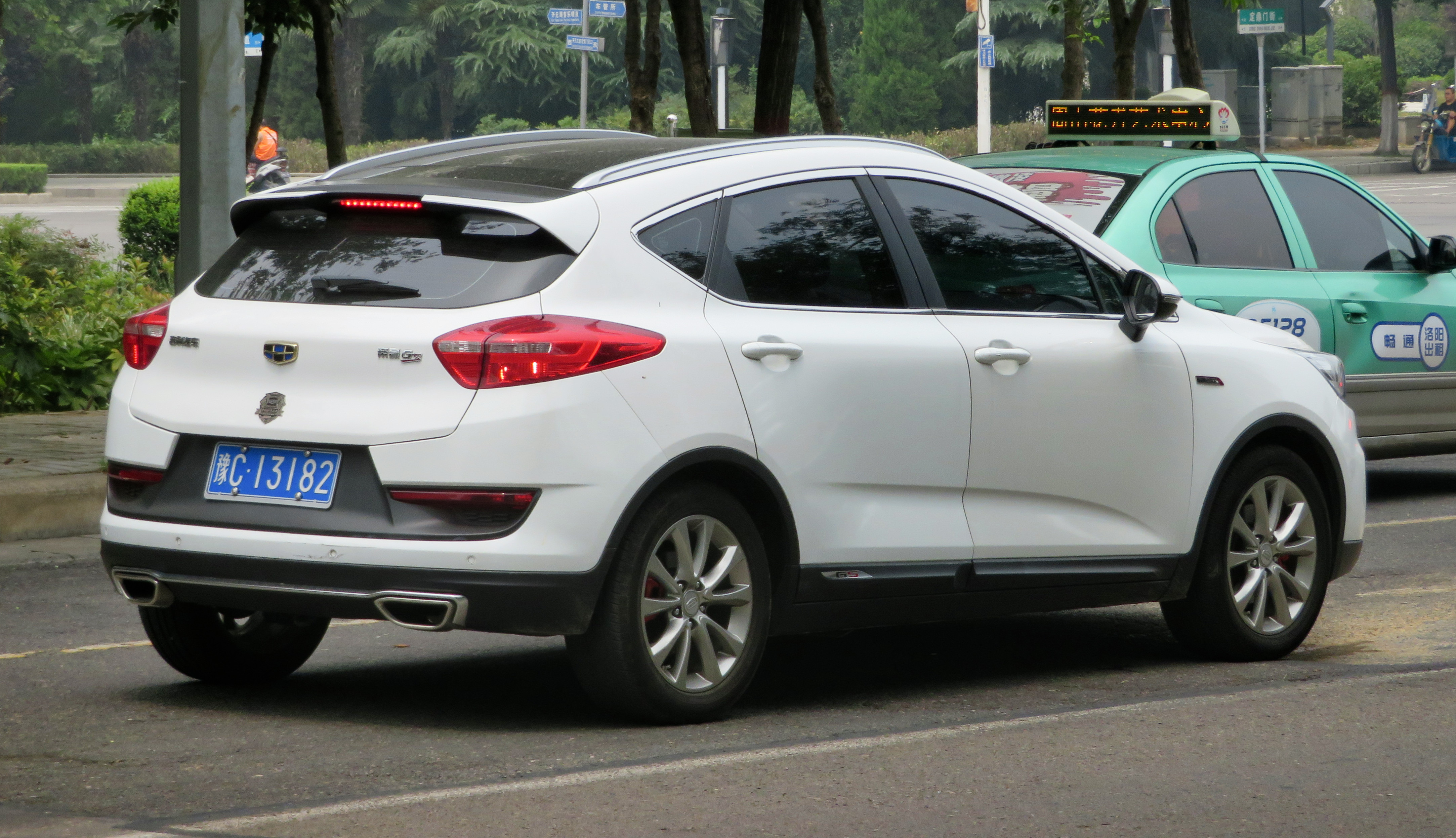 A 2018 Geely Emgrand GS photographed in Xigong District, Luoyang, Henan province, China